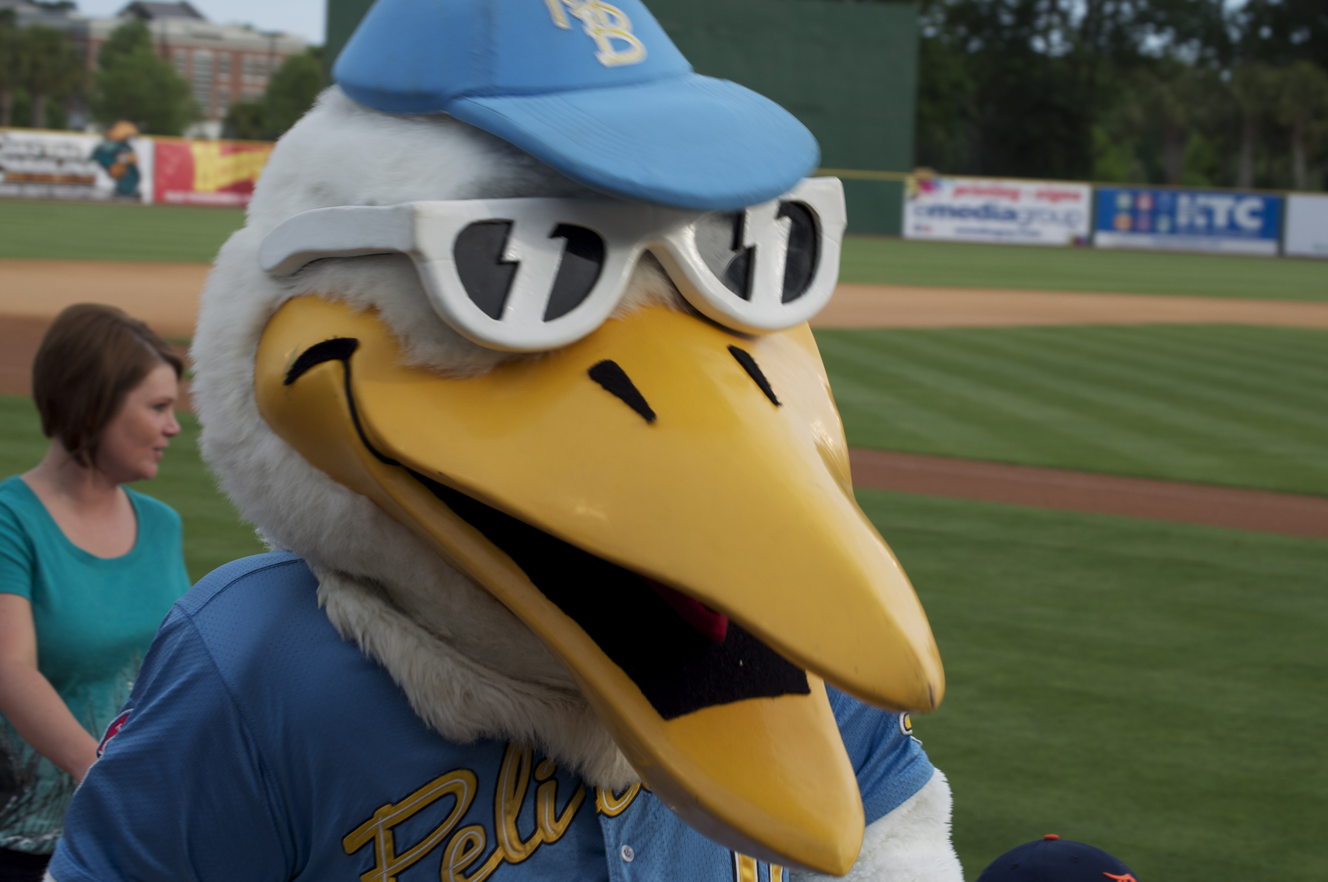 Myrte Beach_Pelicans_mascot_ Splash